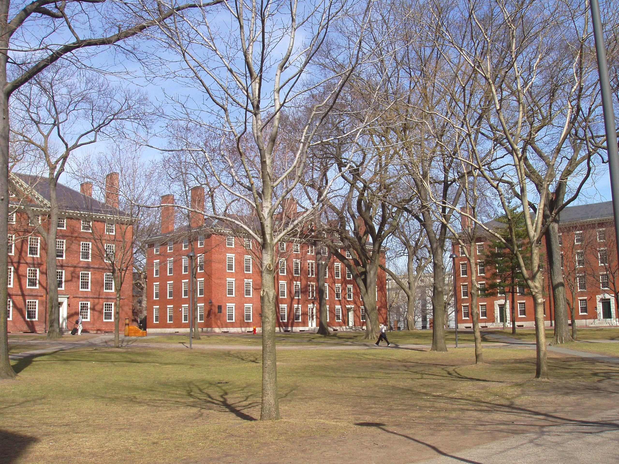 General view of Harvard Yard, Harvard University, Cambridge, Massachusetts, USA.